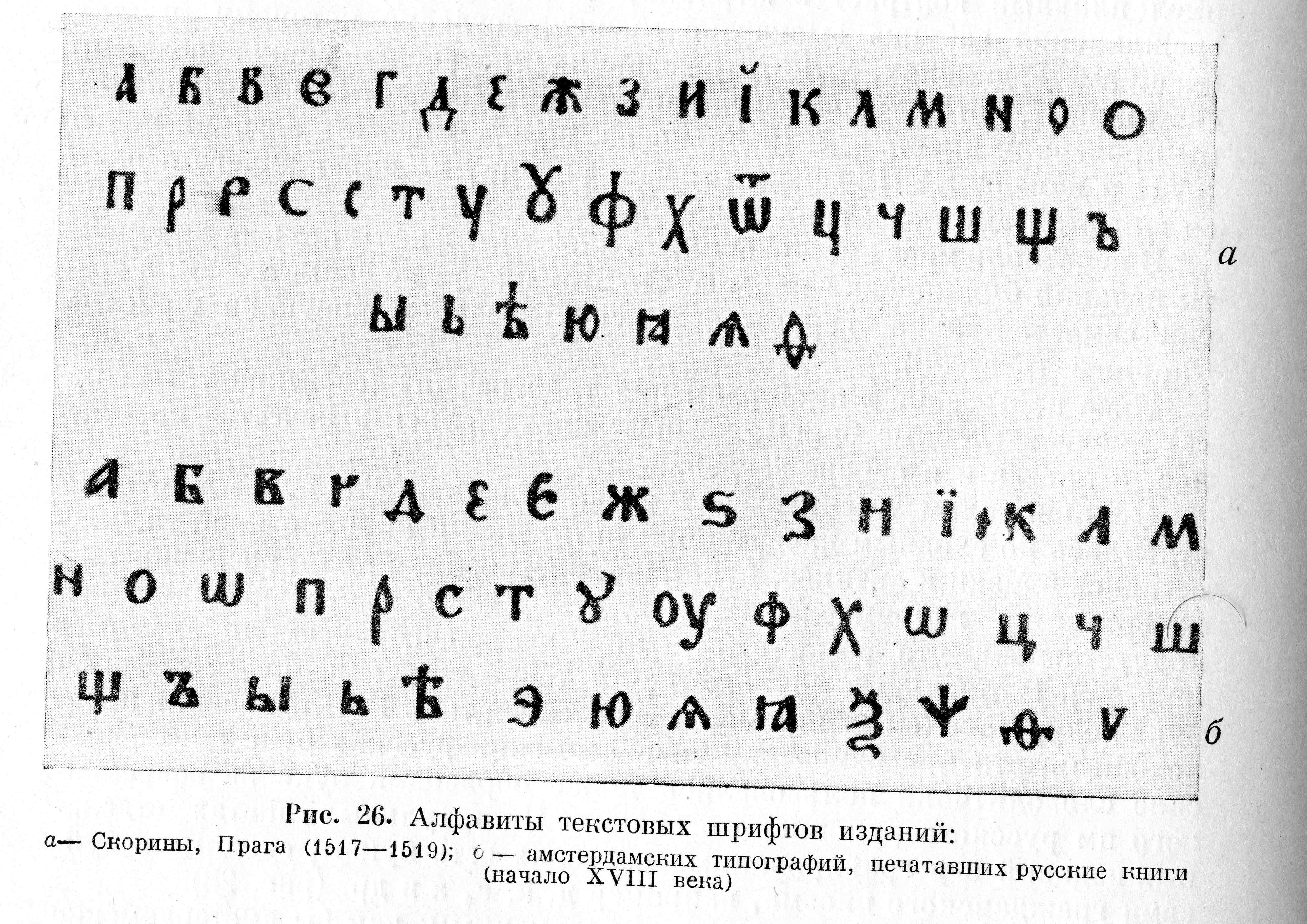 Types of pulications of Frantsisk Skorina, Prague (1517-1519) and printing plants in Amsterdam (1699-1705)